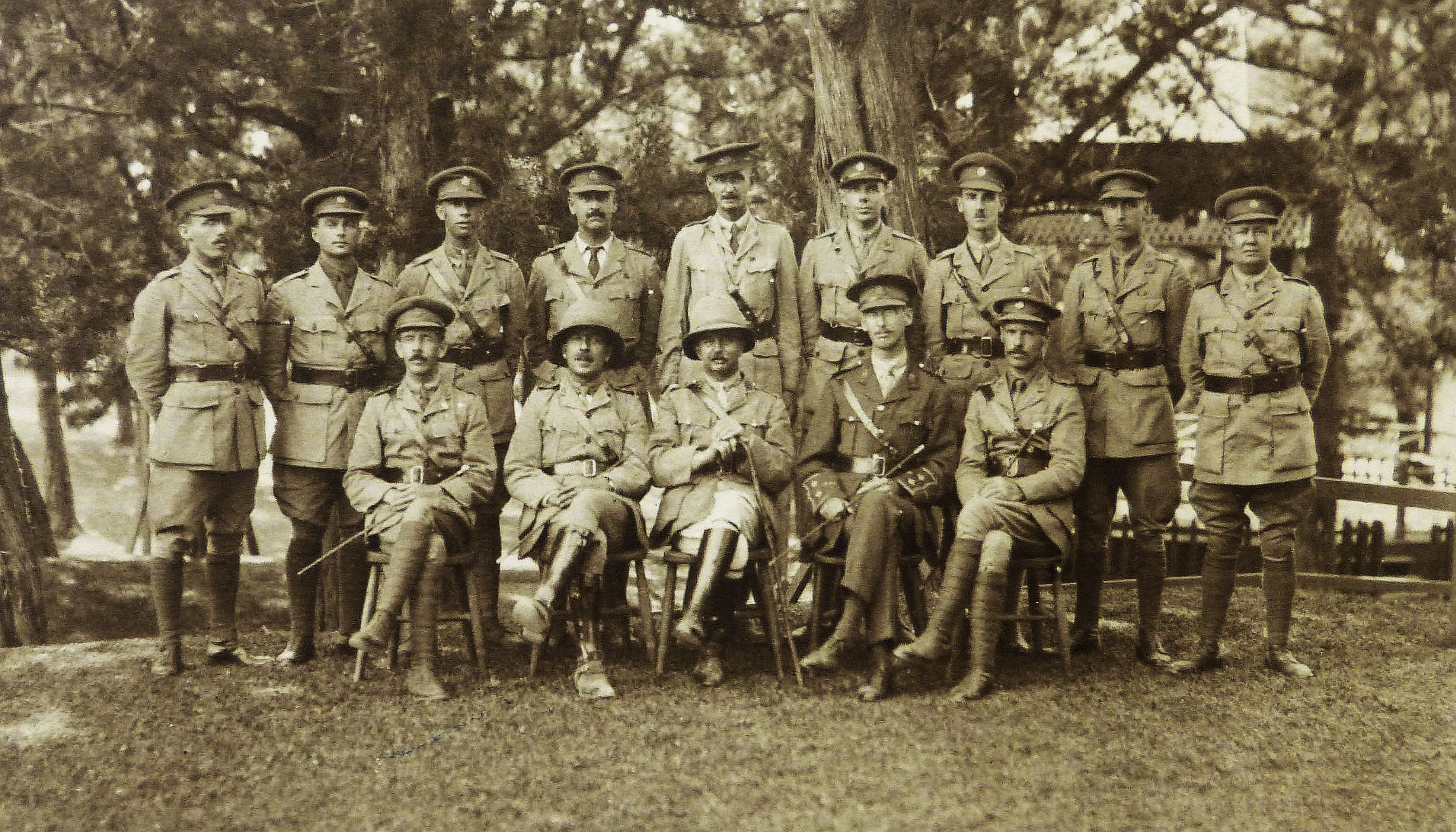 Officers of the Bermuda Volunteer Rifle Corps attached to 2/4th Battalion of the East Yorkshire Regiment in Bermuda during April and May, 1918. Front row (left to right): Captain T.S. Murdoch, BVRC; Captain Jas. Paterson, Adjutant 2/4th E. Yorks; Colonel WH Land, VD, Commanding 2/4th E Yorks; Lietenant GR Atkinson, 2/4th E Yorks; Captain HH Lockward, BVRC. Back Row: Second-Lieutenant GCG Montagu, BVRC; Second-Lieutenant GC Conyers, BVRC; Regimental Sergeant Major R. MacDonald, 2/4th E Yorks; Second-Lieutenant WD Wadson, BVRC; Second-Lieutenant PS Ingham, BVRC; Second-Lieutenant SP Eve, BVRC; Captain SS Spurling, BVRC; Second-Lieutenant AH Lightbourn, BVRC; Second-Lieutenant EPT Tucker, BVRC.